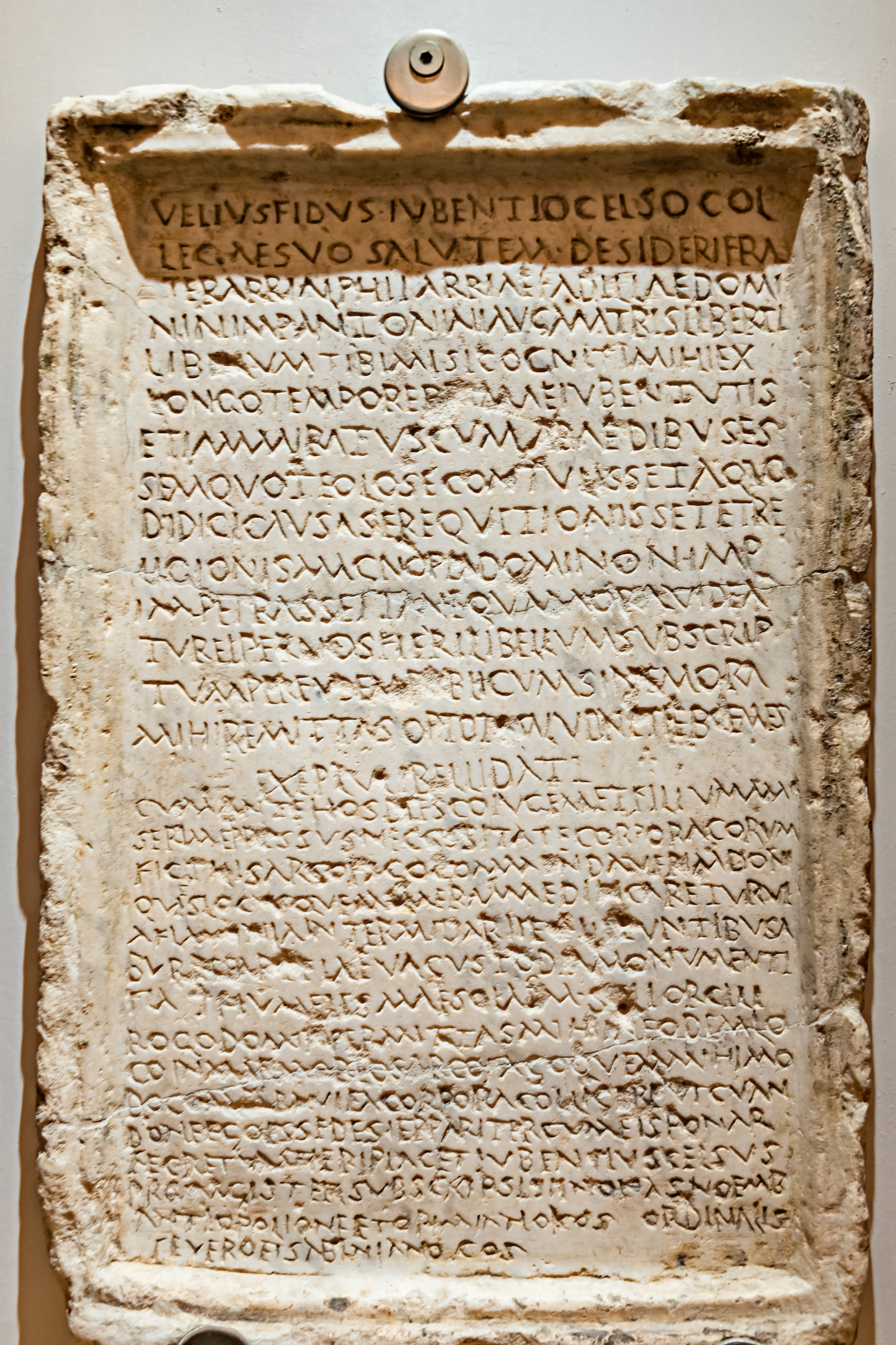 The tablet contains a petition -libellum- addressed to the pontifices of Rome -for Arrius Alphius, the freedman of Arria Fadilla, mother of Emperor Antoninus Pius. The man asks for permission, the remains of his relatives from the terracotta sarcophagus into which they had been temporarily transferred, into a mausoleum on the Via Flaminia, whose construction was finally completed. 155 d.c.